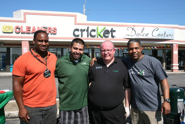 Jackson, wearing orange, and the management team of Cricket Wireless outside his south side Chicago store during one of Jackson's Friday summer cookouts.